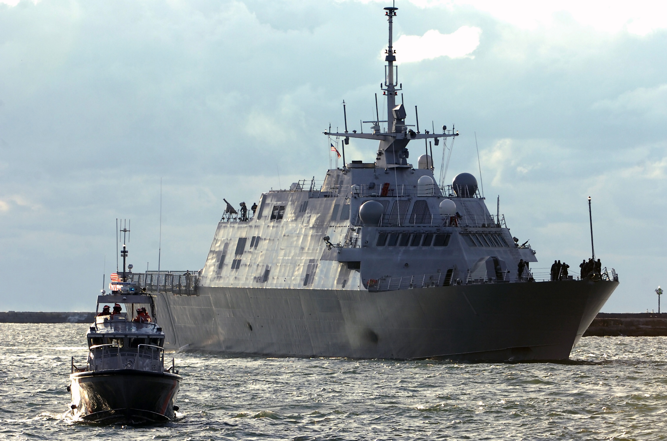 The littoral combat ship USS Freedom (LCS 1) sails into the mouth of the Buffalo River toward Buffalo Naval Park for a scheduled port visit in Buffalo, N.Y. Freedom will make other port calls as the ship continues to Naval Amphibious Bass Little Creek, Va.